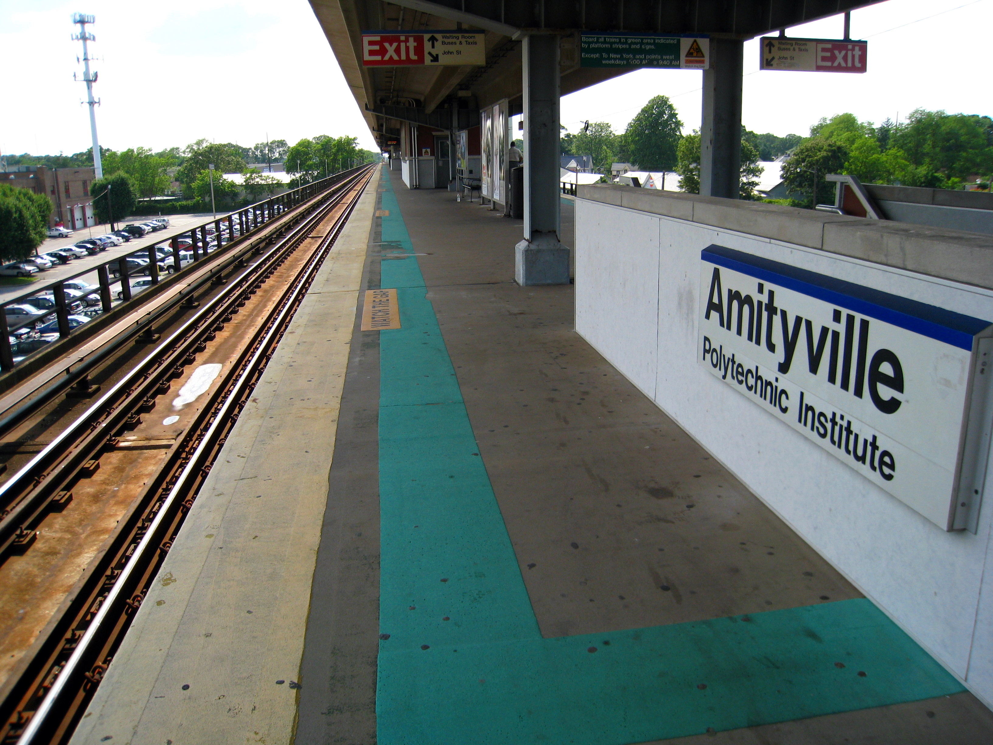 South platform at Amityville Station in Amityville, NY.